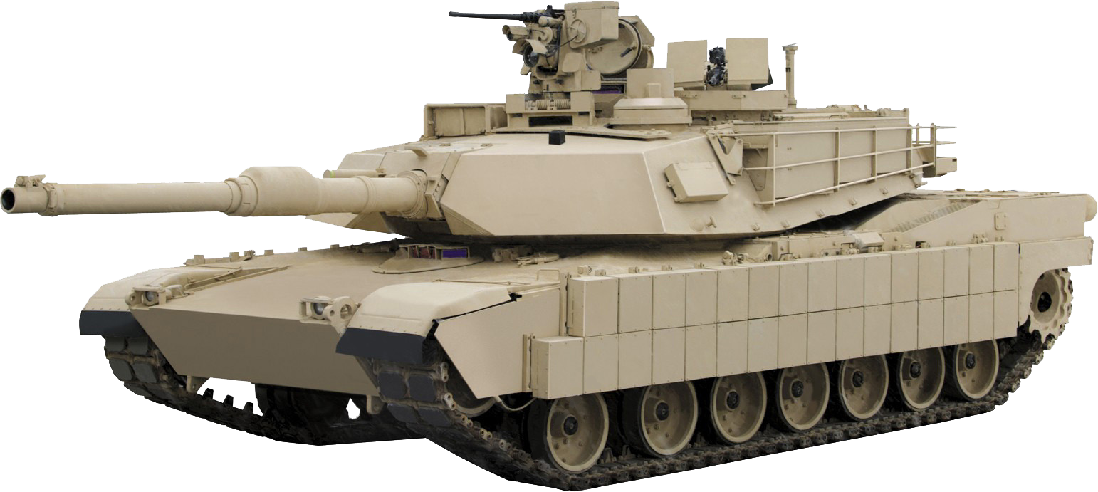 This is the M1A2 TUSK Abrams Tank.